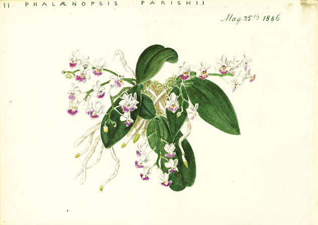 Phalaenopsis parishii